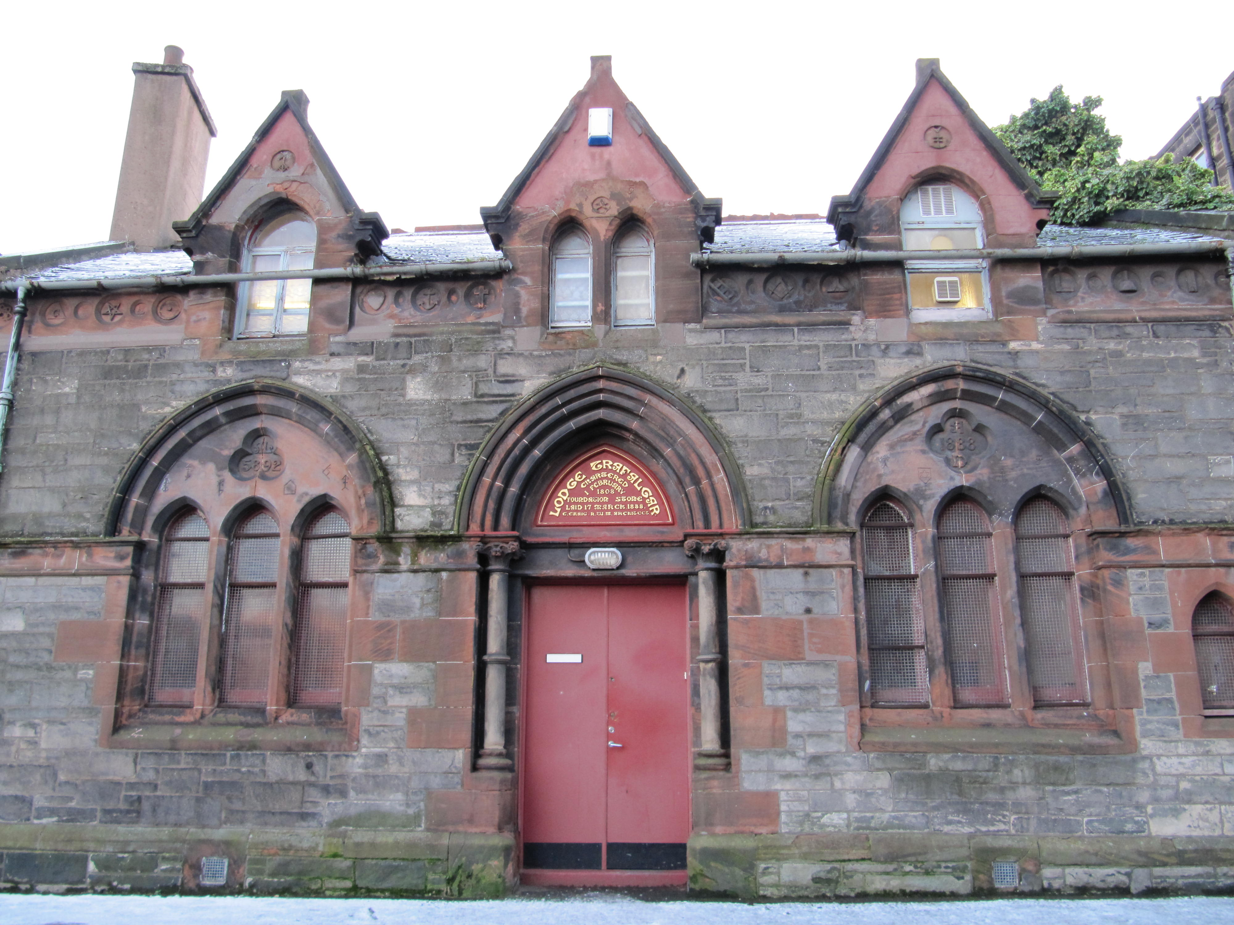 Listed Masonic Lodge off Henderson Street, Leith, Edinburgh